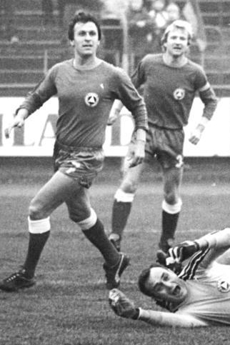 Factual corrections and alternative descriptions are encouraged separately from the original description. Additionally errors can be reported at this page to inform the Bundesarchiv. Original historic description: Ralf Weber (Mitte) als KWO-Spieler 1986